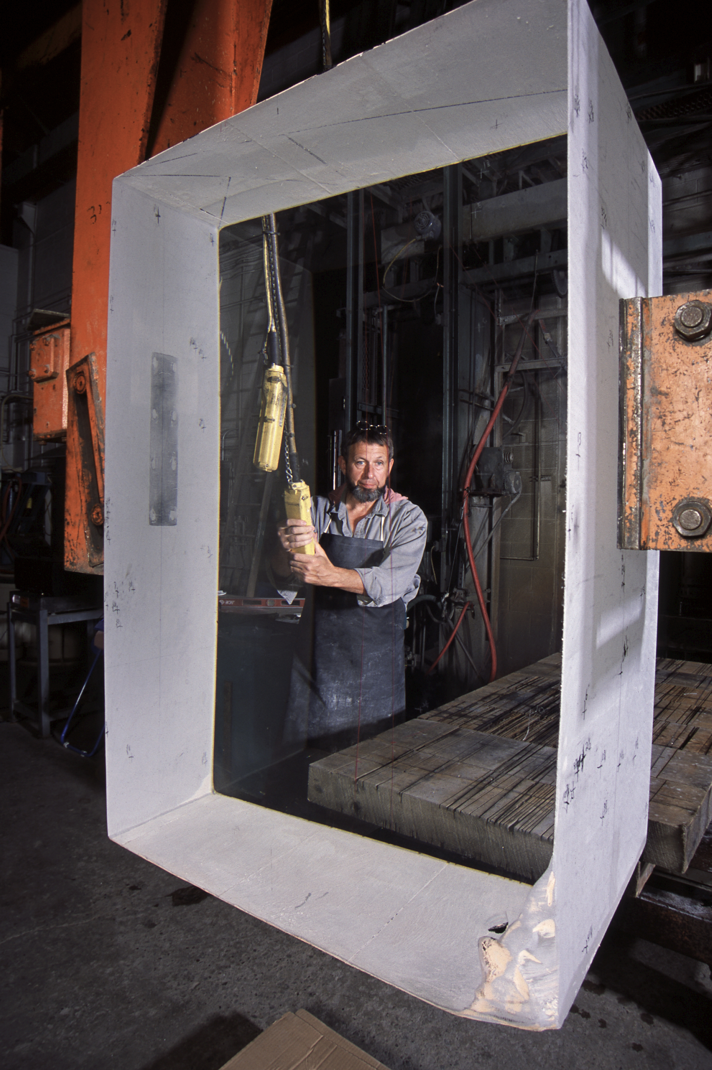 Ries with raw block of optical crystal. Photograph by James Kane.